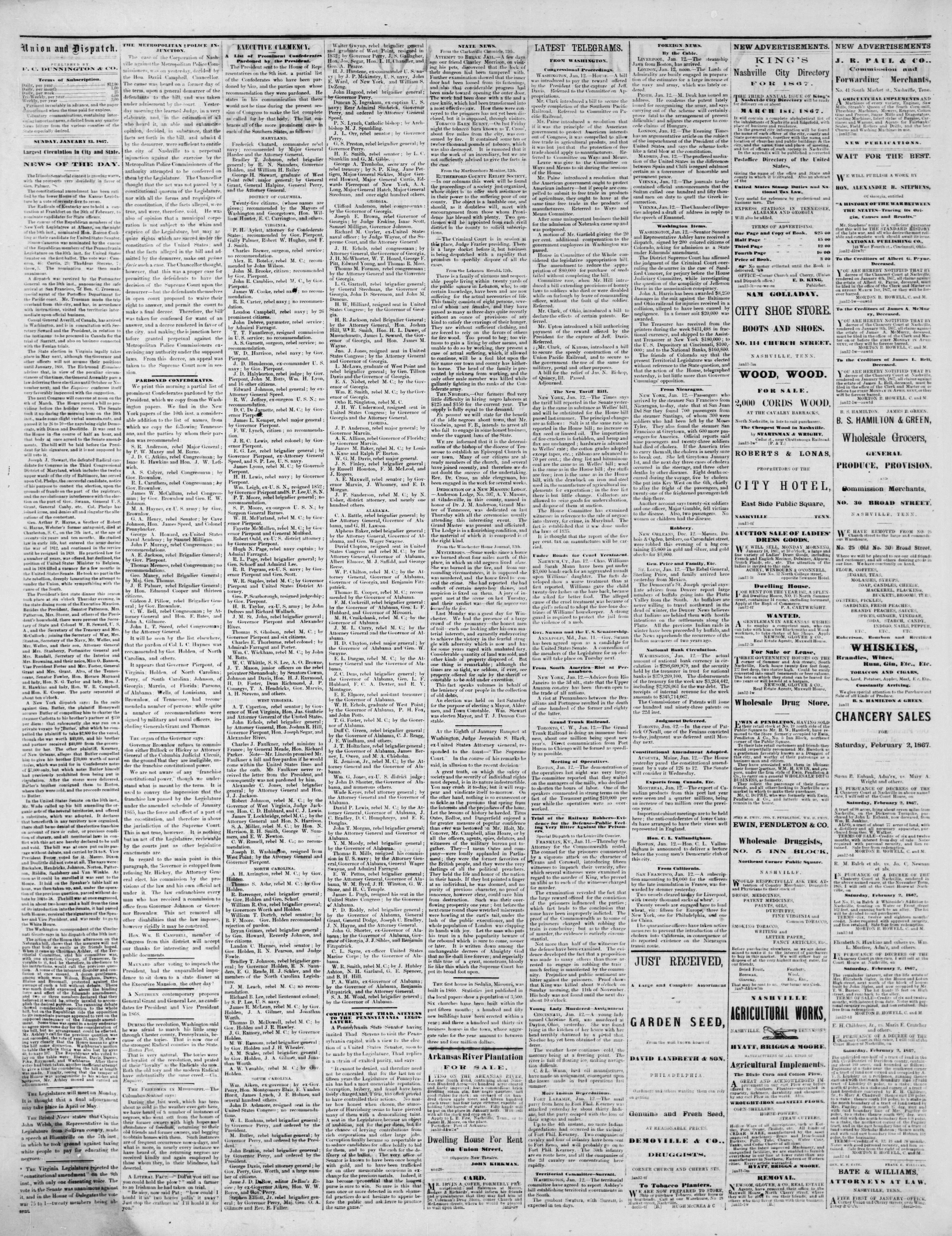 List of former Confederate military and political figures who have received a special pardon from President Johnson